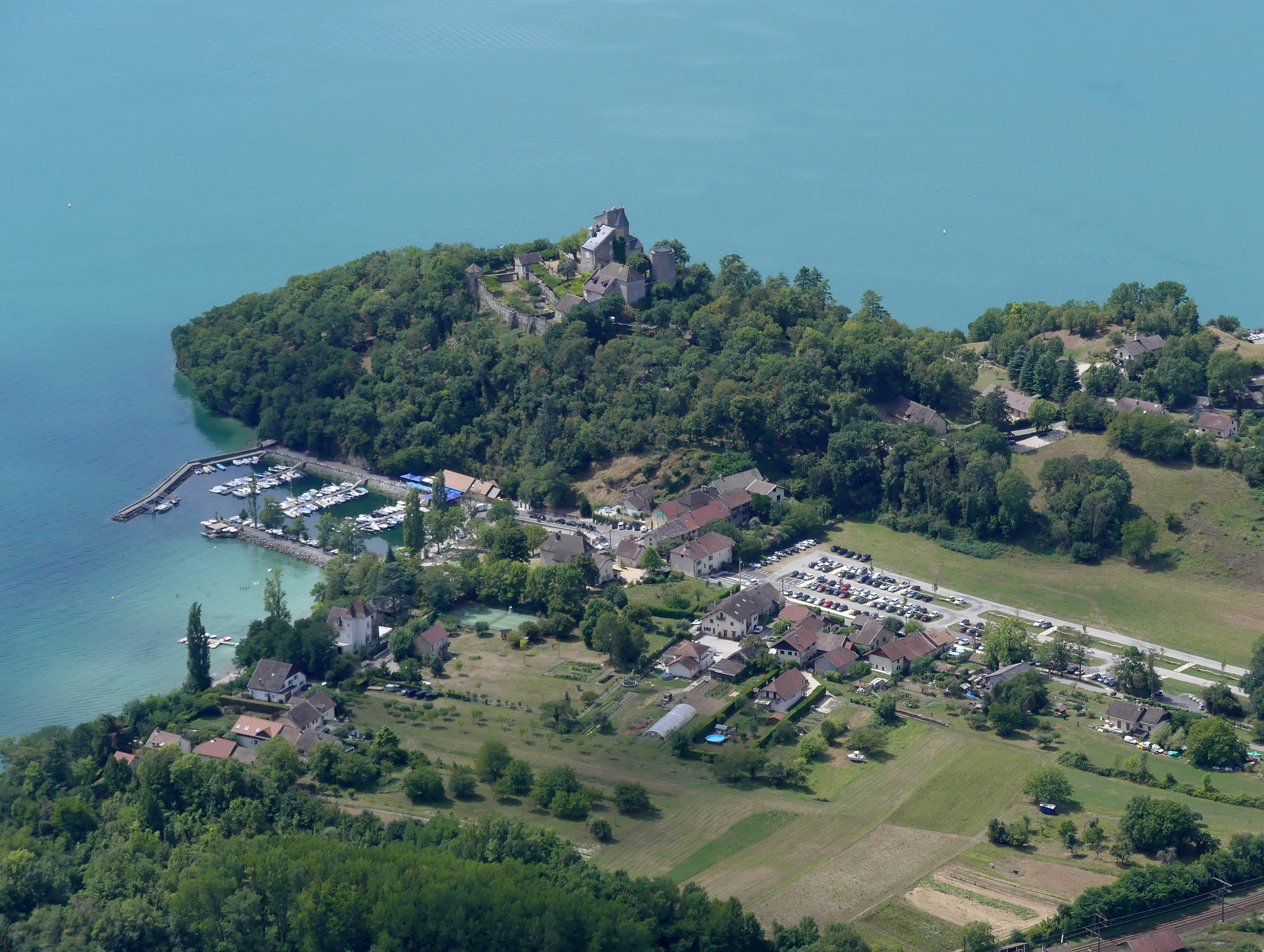 Sight, from Montagne de Cessens mountain, of Châtillon hamlet on the north-east side of Bourget lake, with its beach and castle, in Chindrieux, Savoie, France.